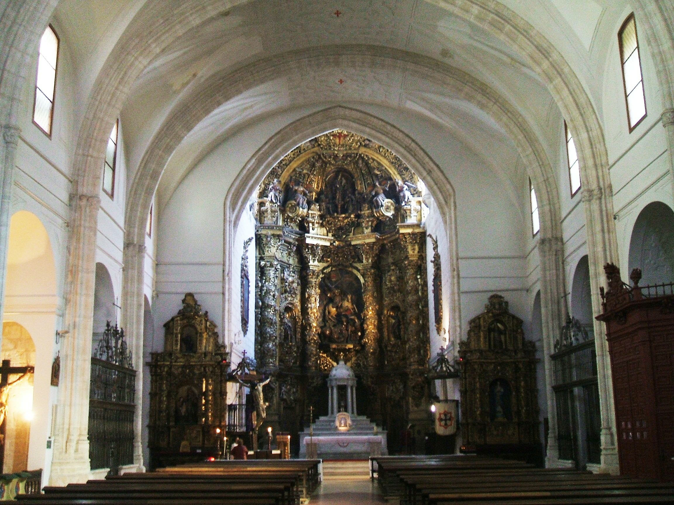 Iglesia de Santiago, Valladolid, España